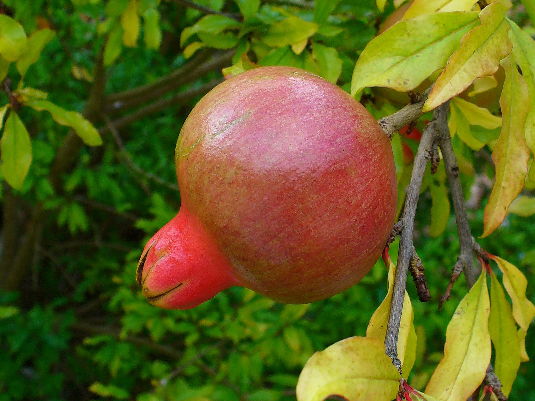 Punica granatum, Lythraceae, Pomegranate, fruit. Botanical Garden Karlsruhe, Germany.